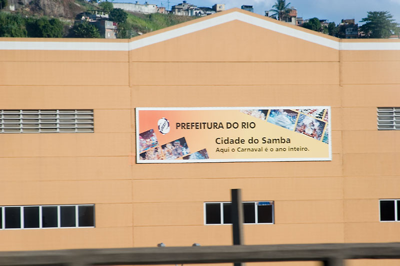 City of Samba. Where the floats and such get built for Carnival.